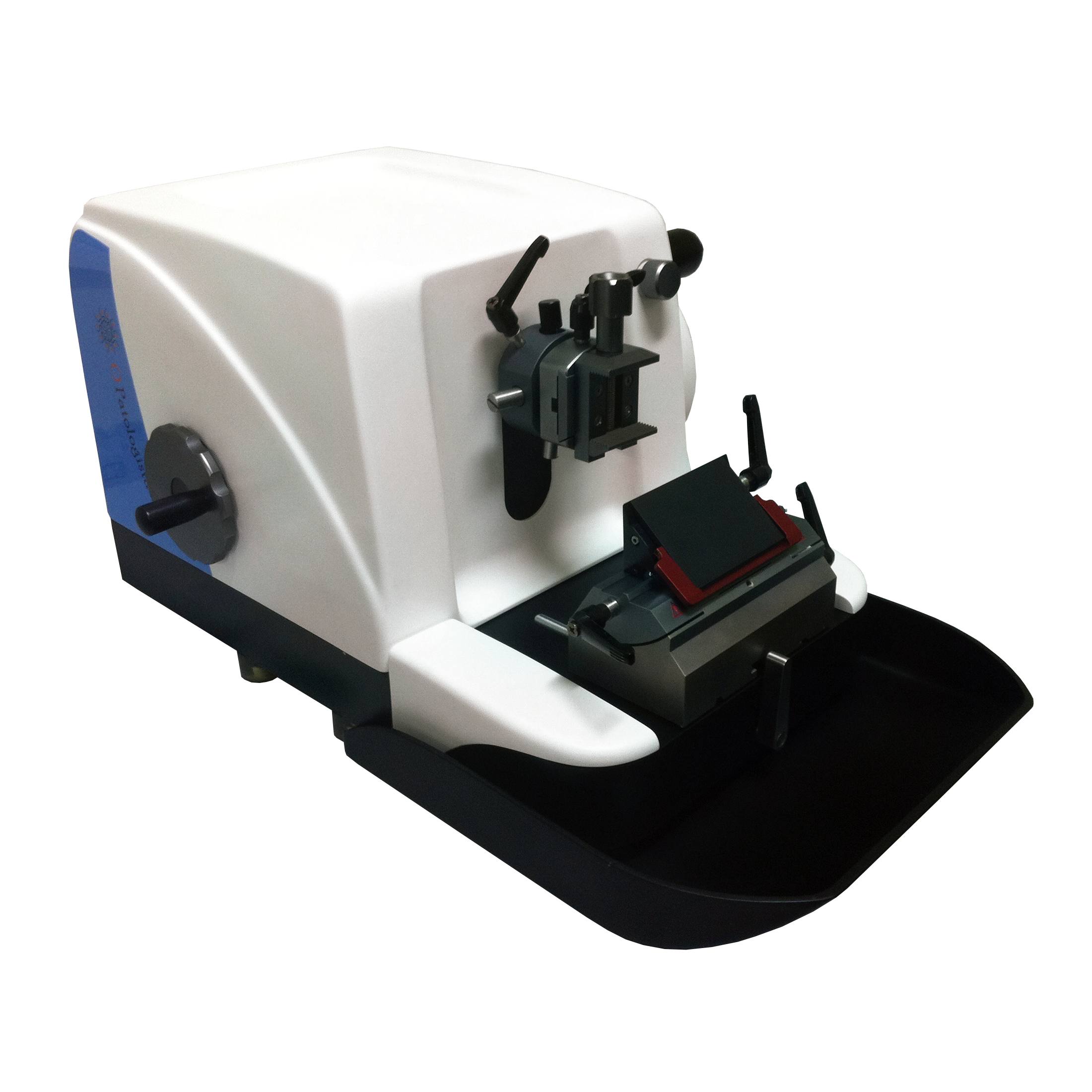 microtome